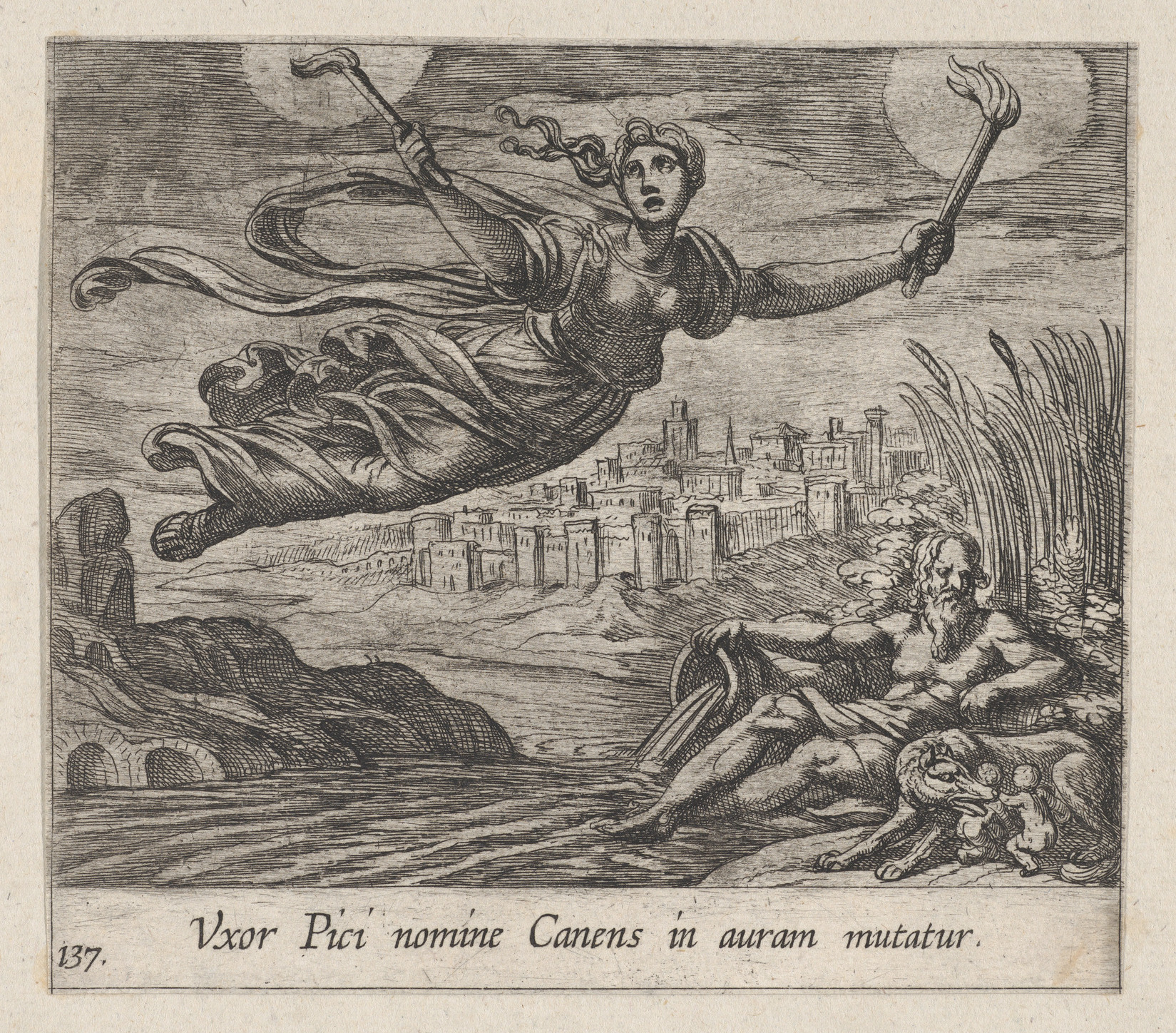 Print; Prints